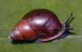 Photo of Partula taeniata simulans from Mount Tohivea (or Tohiea) on Moorea.